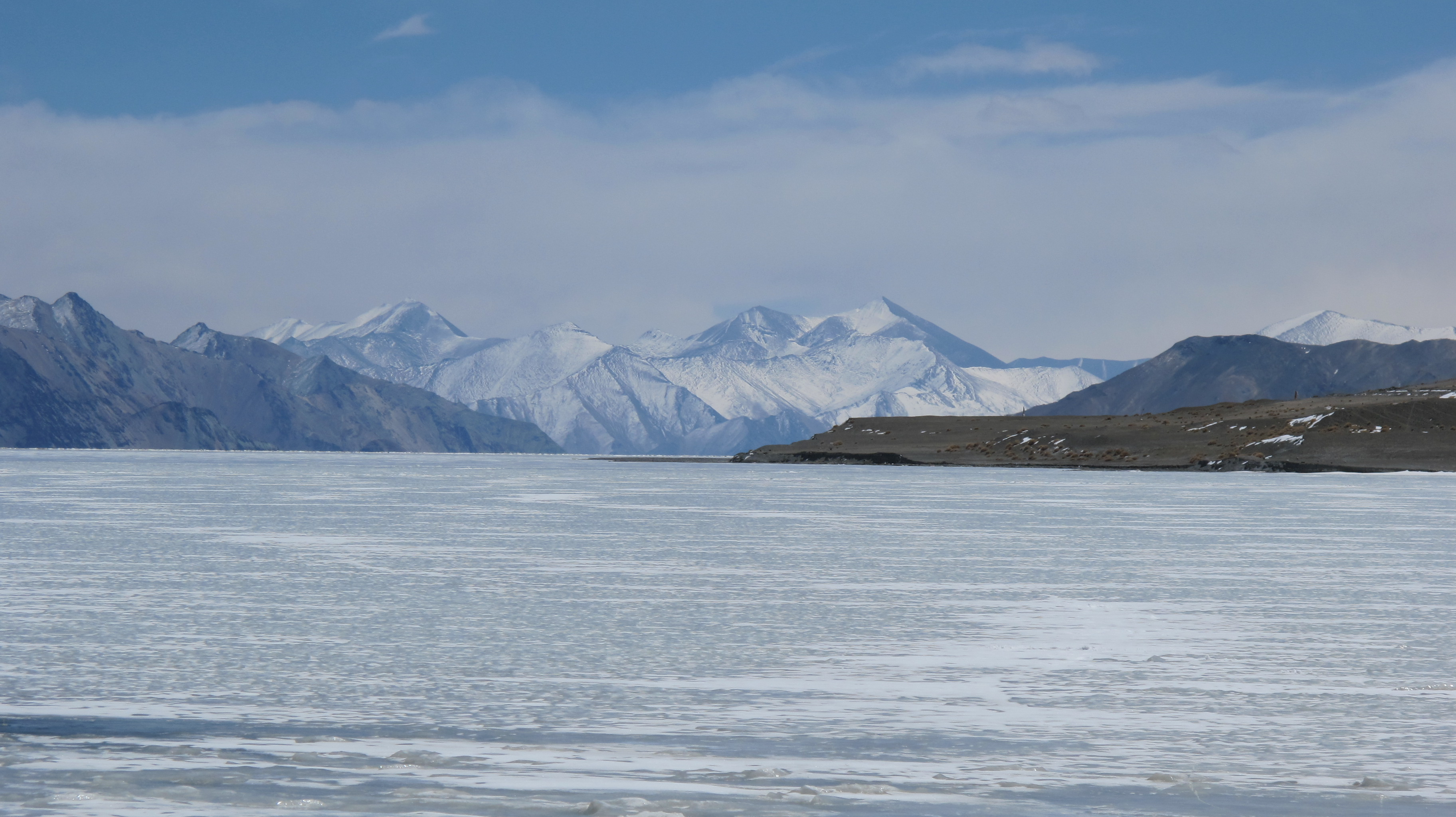 Frozen Pangong in April